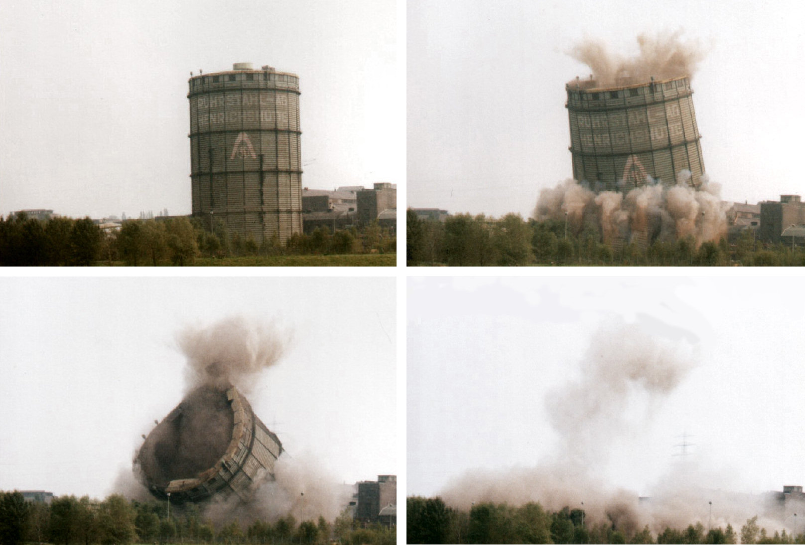 Blast of the gas storage at steel work Henrichshütte in Hattingen, 1994, Germany.